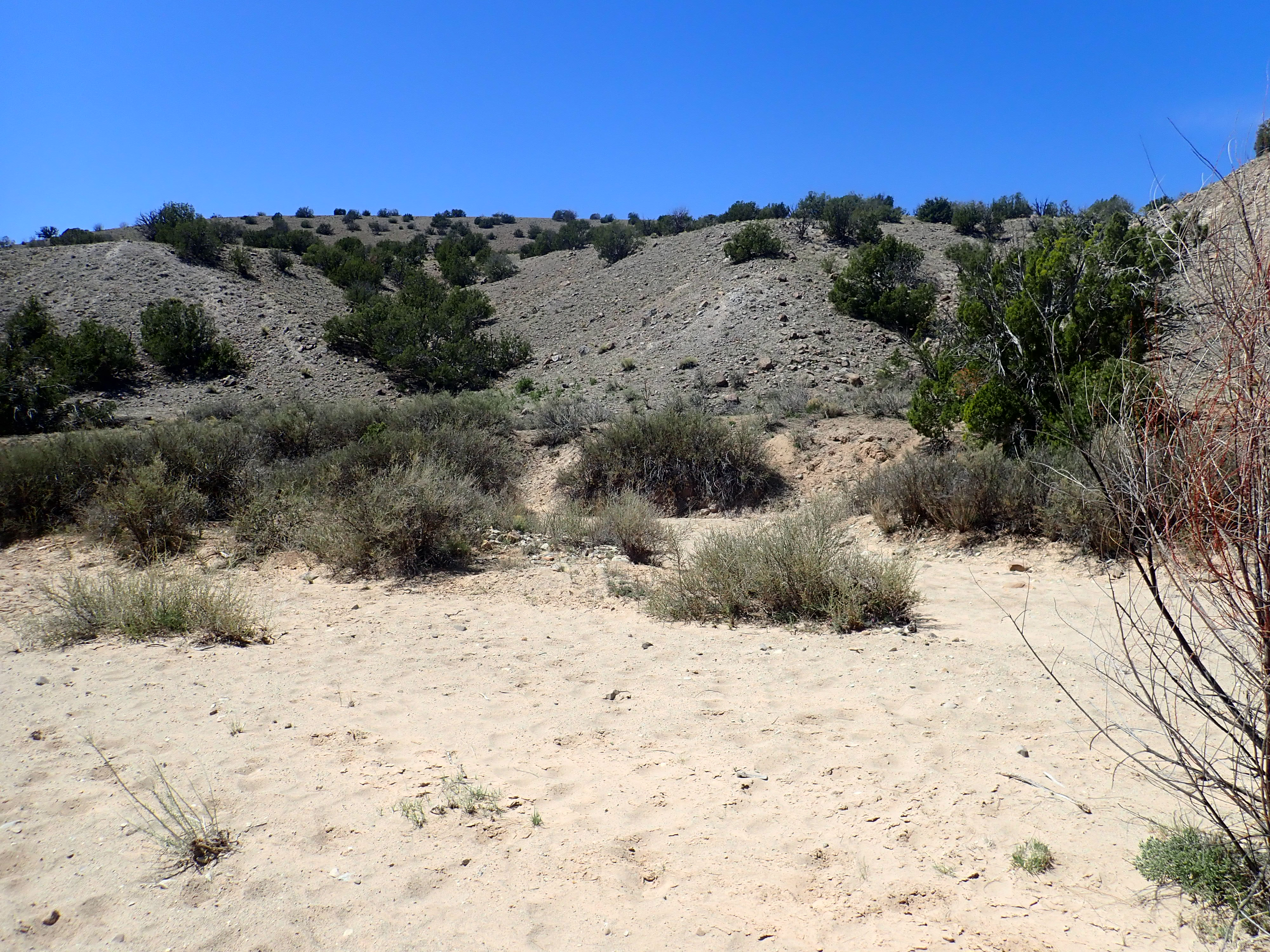 This image shows a portion of Espinaso Ridge, a hogback ridge in New Mexico, USA. The ridge is located just south of the I-25 corridor between Albuquerque and Santa Fe. It is underlain by resistant beds of the Espinaso Formation that stand out when the less resistant beds of the overlying Santa Fe Group and underlying Gallisteo Formation are eroded away.